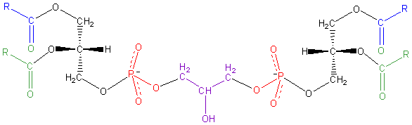 Structural formula of Diphosphatidyl glycerol (Blue/Green: Fatty acid, Black: Glycerol backbone, Red: phosphate, Purple: Glycerol)